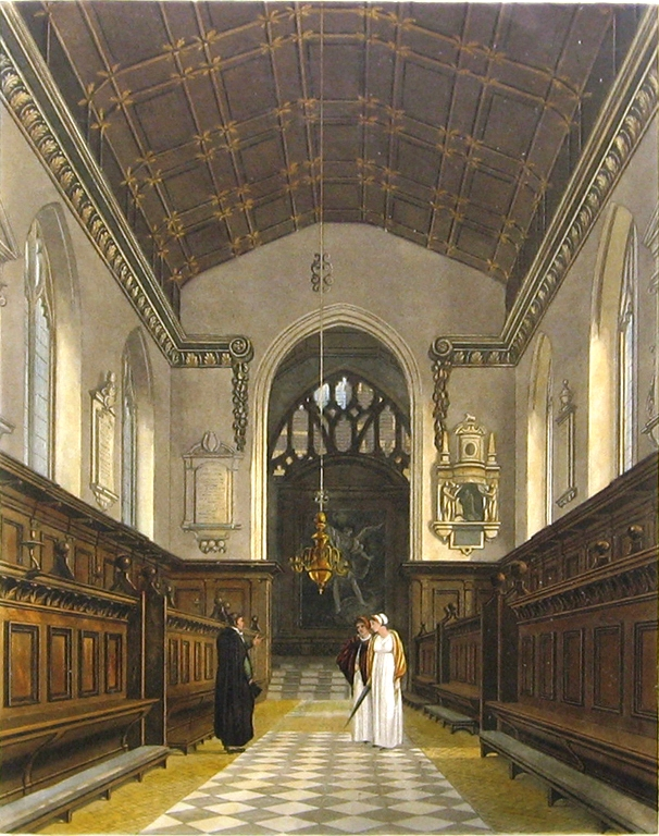 Part of an engraving, interior of the chapel of Jesus College, Oxford. Caption reads: Jesus College Chapel. Published Octr. 1-1814 at 101 Strand for R. Ackermann's History of Oxford.